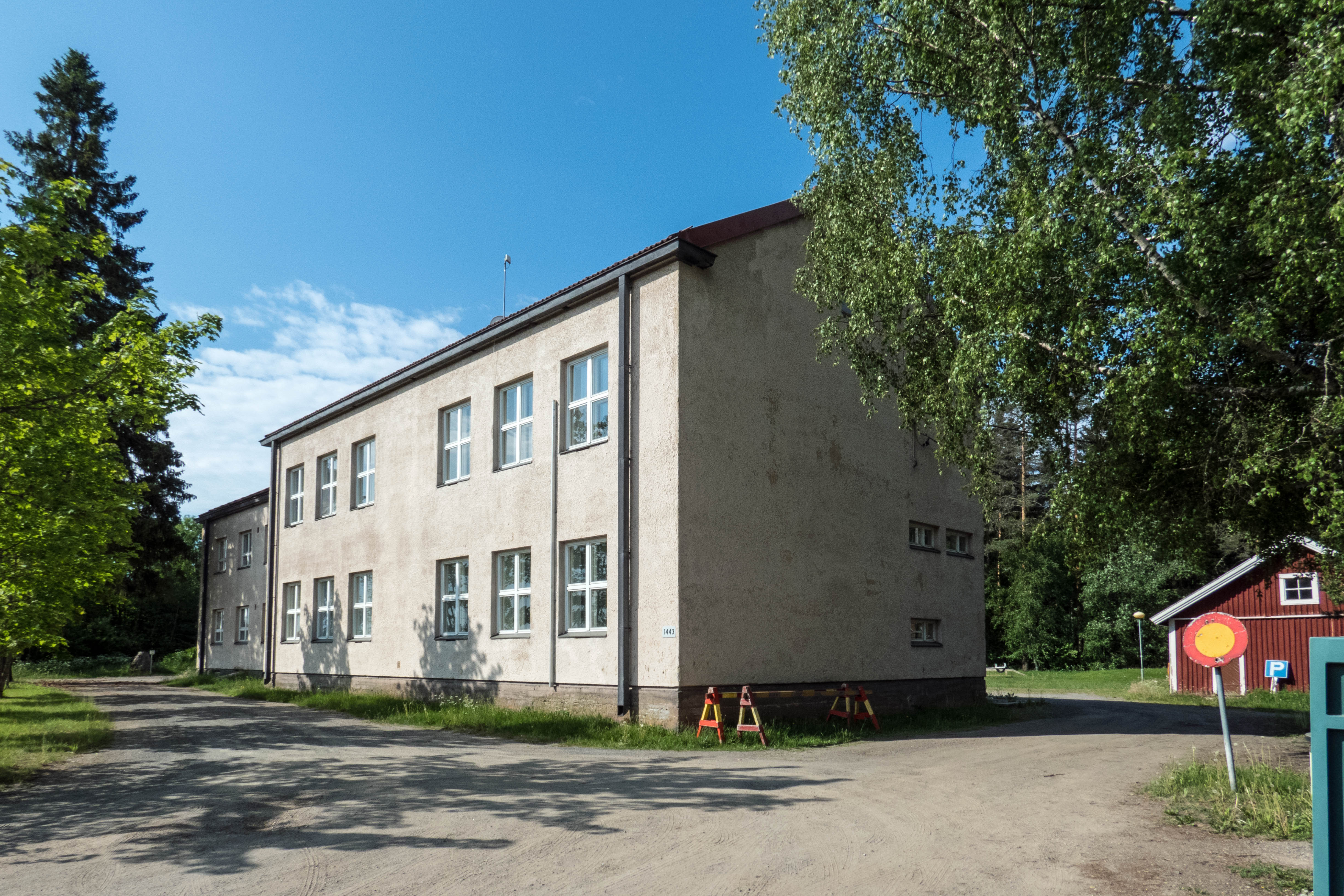 Koikkala school Juva